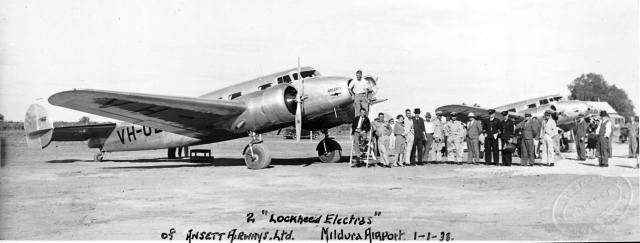 LOCKHEED ELECTRAS OF ANSETT AIRWAYS. LTD. MILDURA AIRPORT 1.1.38 TWO LOCKHEED ELECTRAS OF ANSETT AIRWAYS. ONE MAN STANDS ON A STEP LADDER AT THE OPEN NOSE OF THE AIRCRAFT (LOADING LUGGAGE?) WHILE A GROUP OF PASSENGERS STAND ON THE RIGHT.